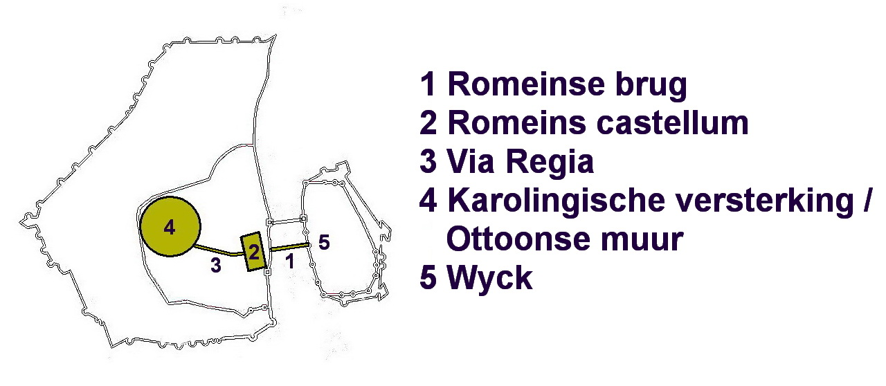 Stylized map of the medieval city of Maastricht, the Netherlands, showing the late Roman castrum and the supposedly early Medieval fortifications (9th/10th c.). The Roman castrum has been excavated almost entirely; the Carolingian fortress around the church and monasterium of Saint Servatius is hypothetical.